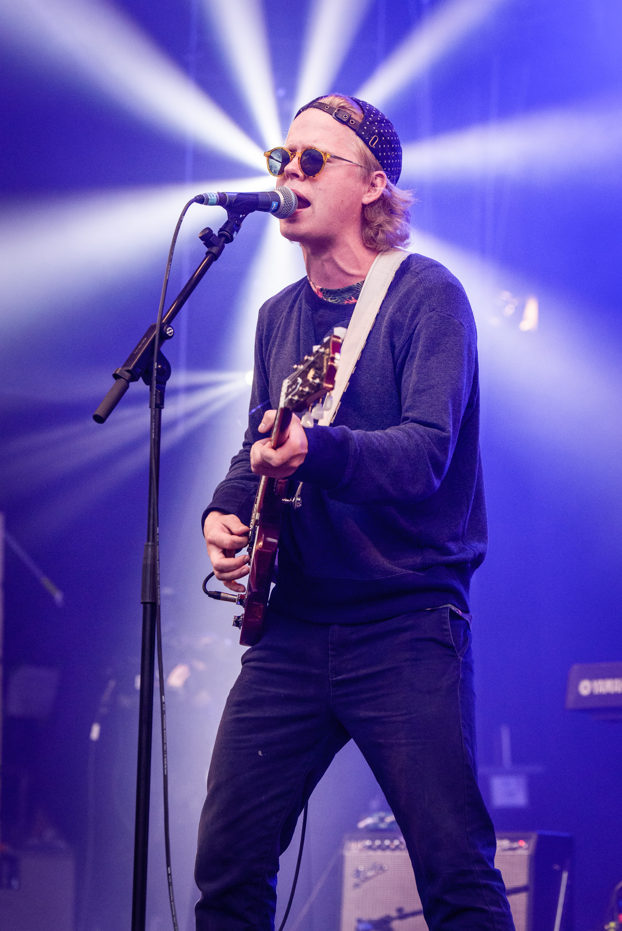 Kakkmaddafakka @ Pulsopenair 2016